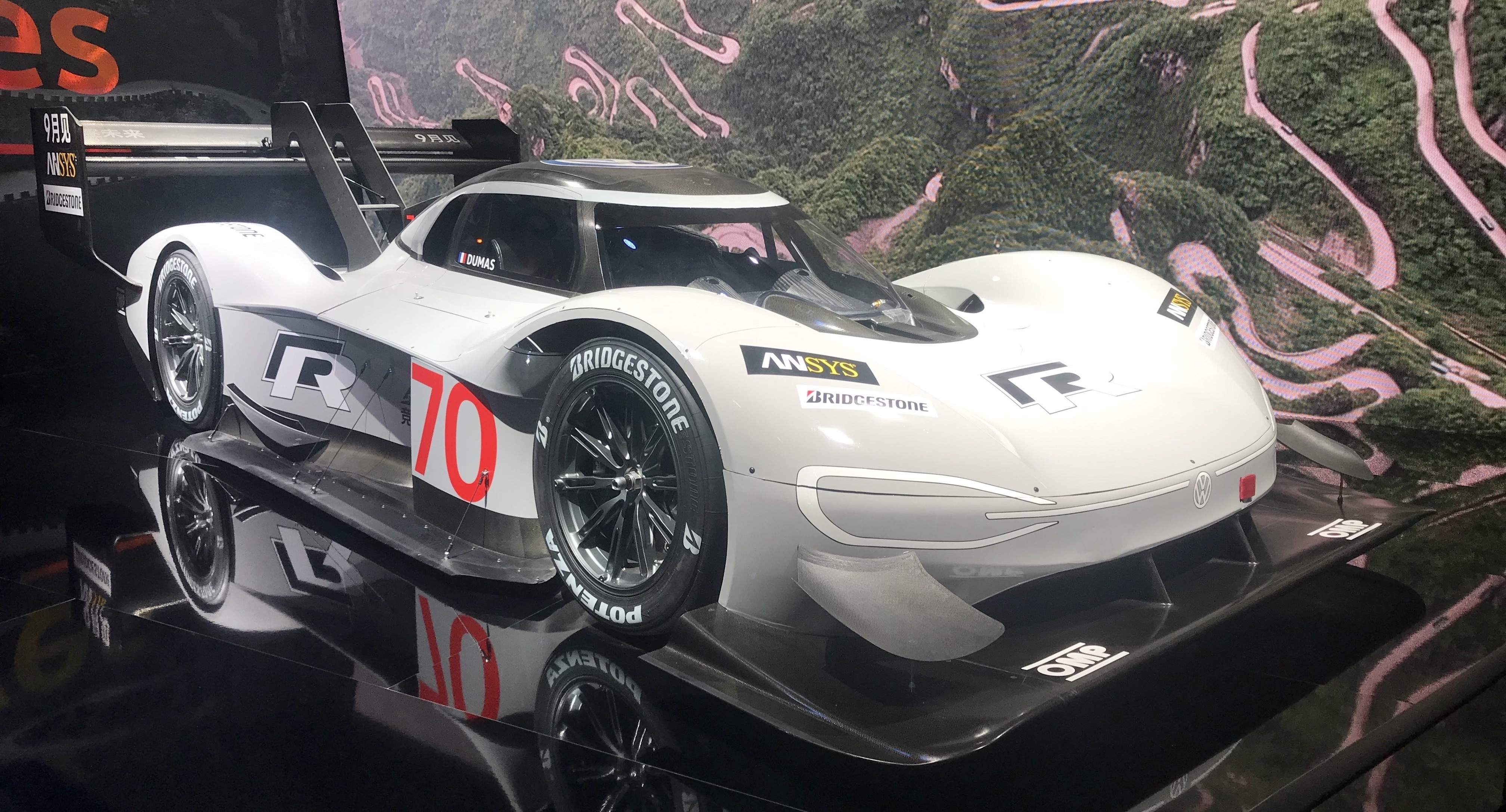 Volkswagen I.D. R